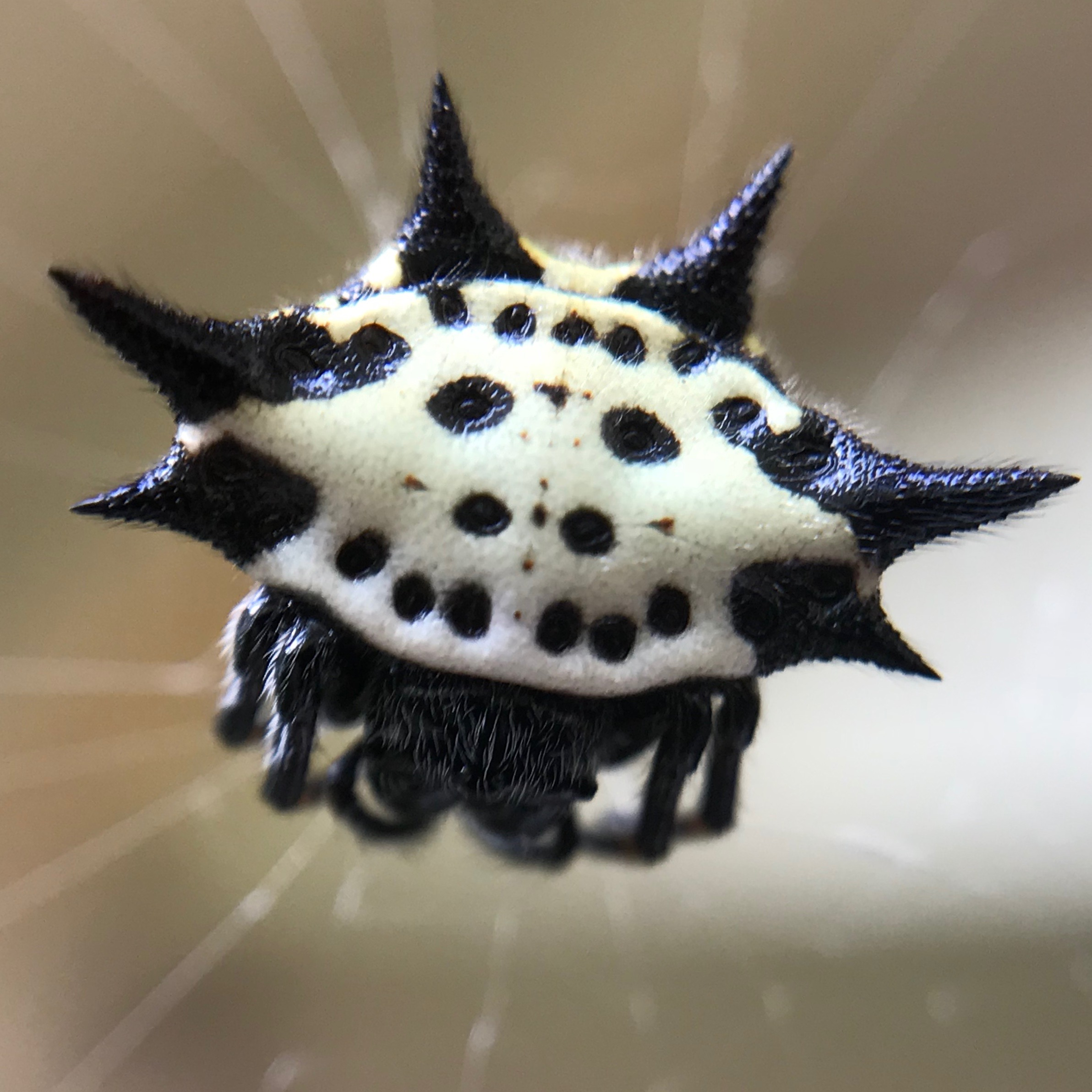 G. cancriformis